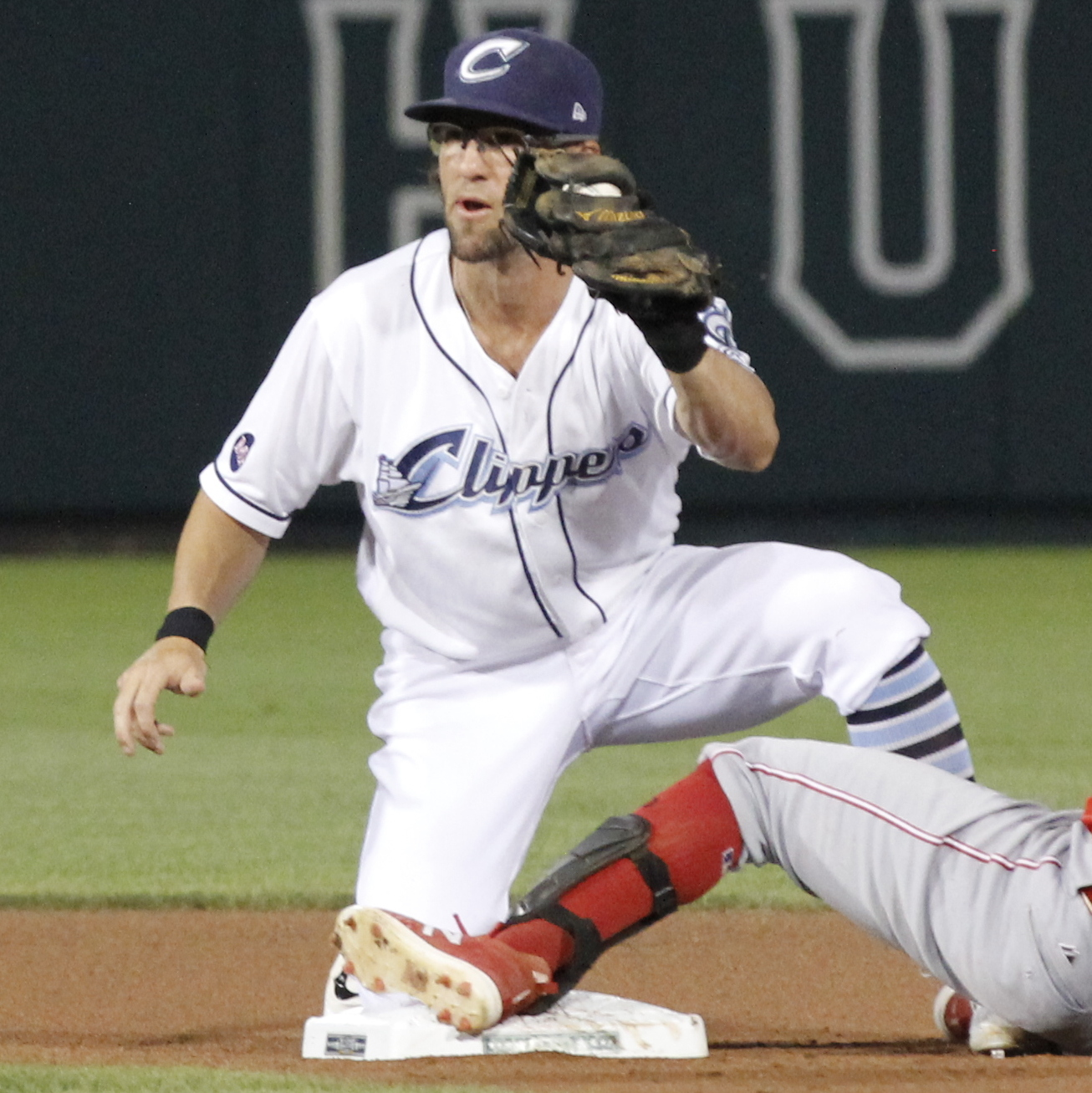 Blake Trahan of the Louisville Bats slides into second base, defended by Drew Maggi of the Columbus Clippers during a 2018 game at Huntington Park in Columbus, Ohio